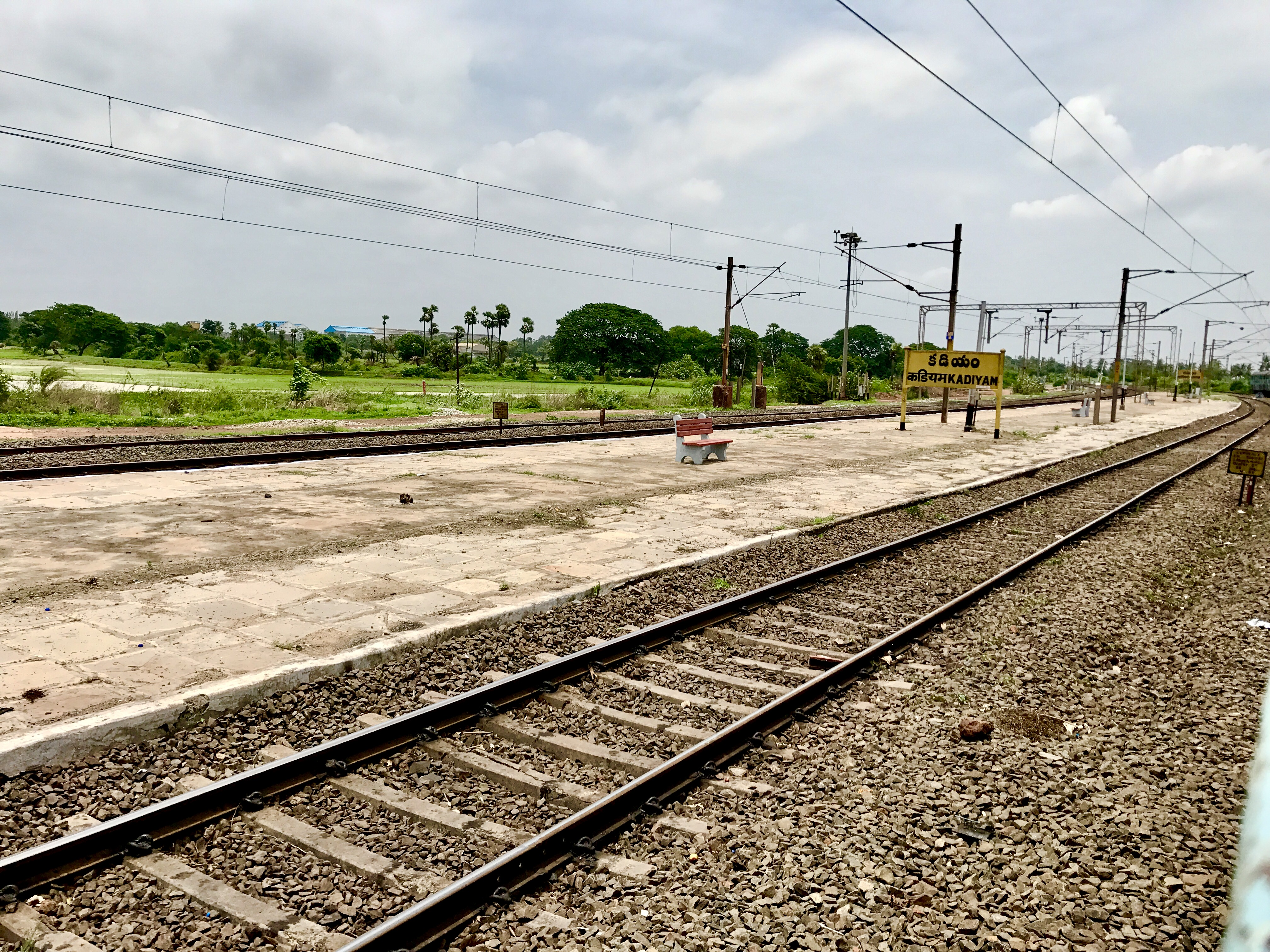 Kadiyam railway station board